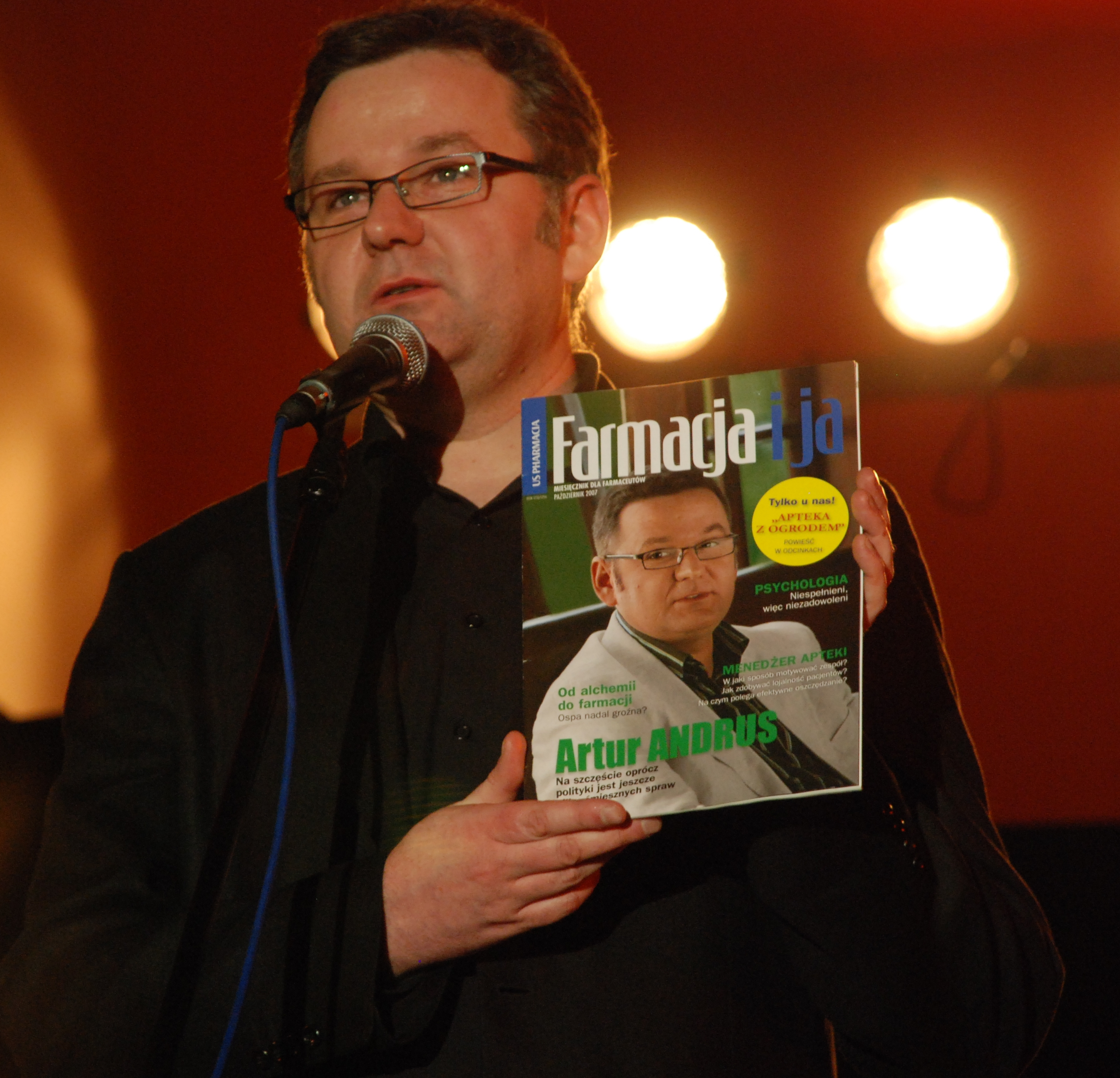 Artur Andrus, a Polish journalist and cabaret artist during his performance on the third day of the 2007 Festival of Cabaret in Zielona Góra.